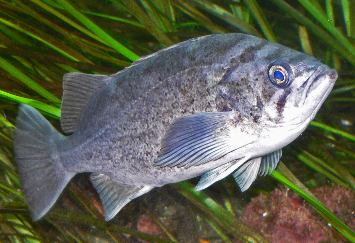 Photo of Sebastes diaconus (Deacon Rockfish) at the Vancouver Aquarium